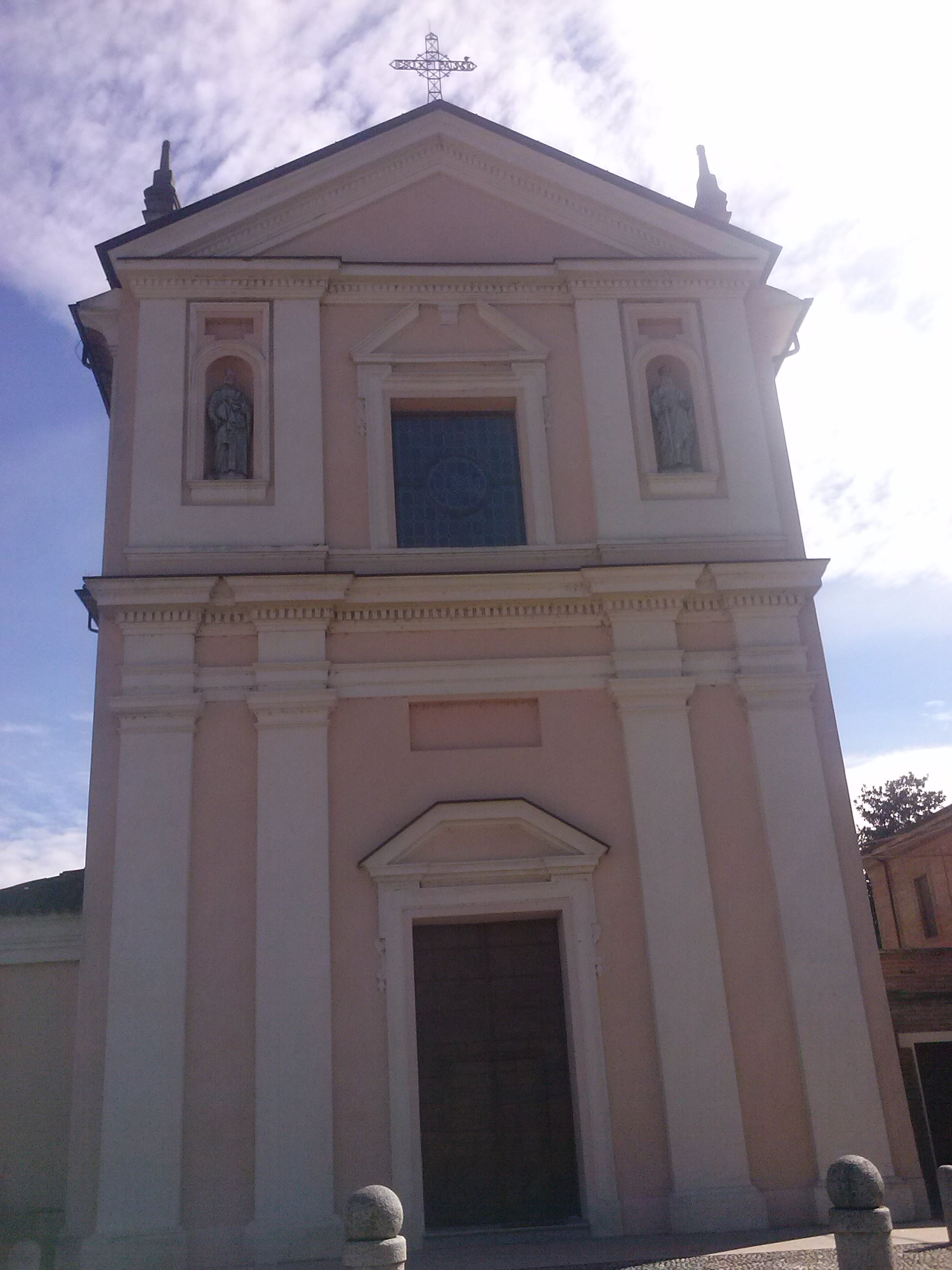 Church of Saint Peter, Campremoldo Sopra, municipality of Gragnano Trebbiense, Piacenza, Italy